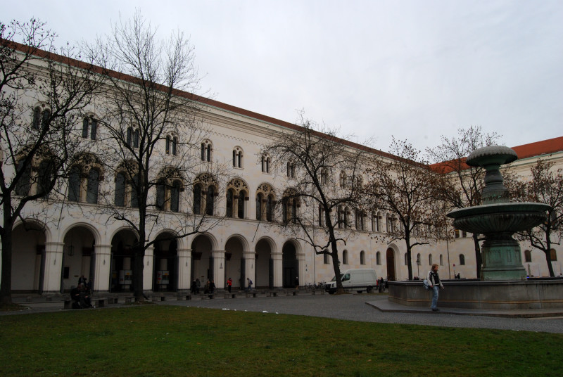 Photo of Geschwister-Scholl-Platz and fountain in front of University of Munich, Germany.